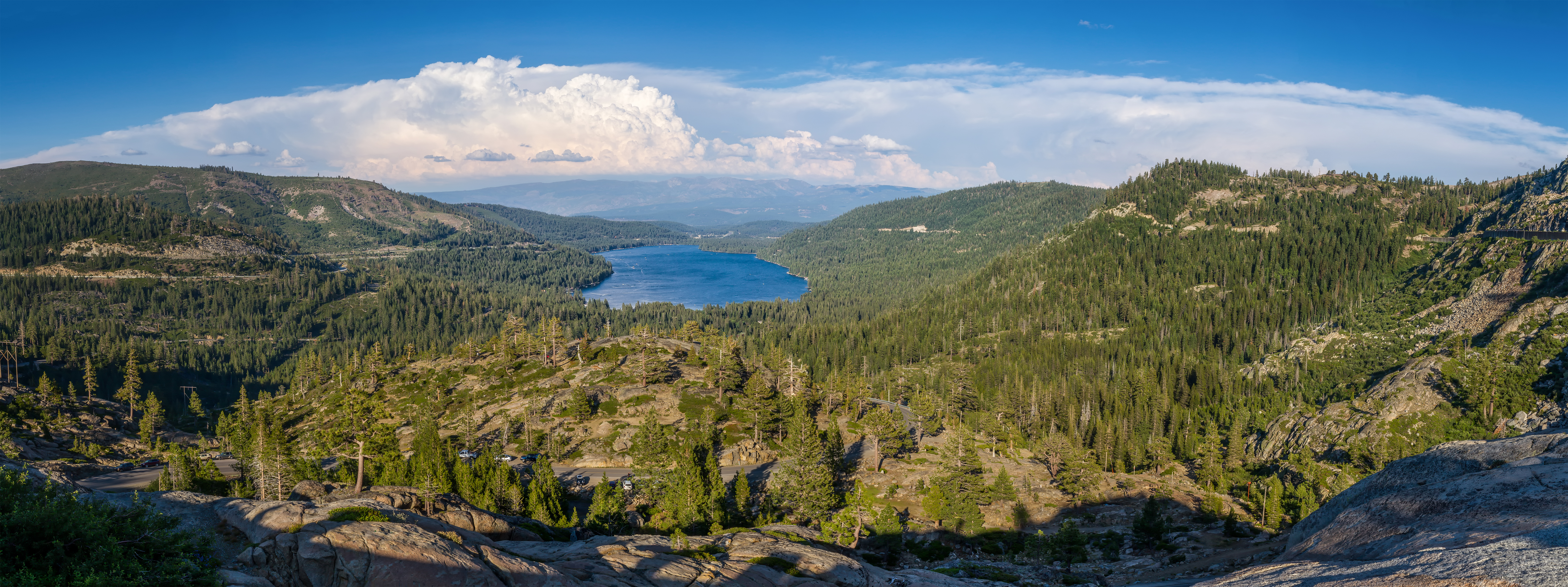 Donner Lake in the Sierra Nevada as seen from Donner Pass in July 2013.